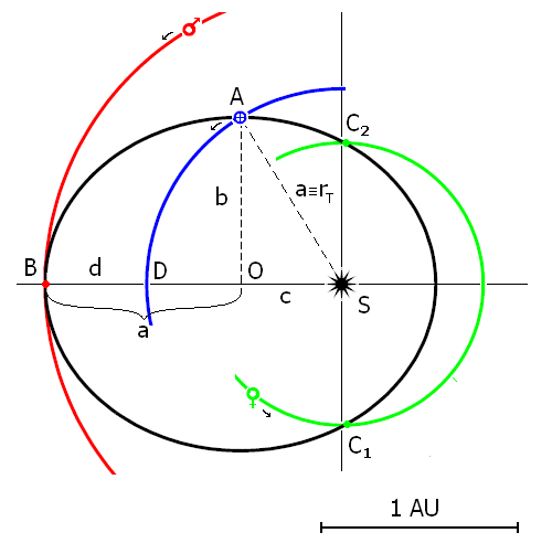 Scheme of Multiplanet Trajectory, proposed by Gaetano A. Crocco in 1956. Back identifies spacecraft's orbit; blue, Earth's orbit; red, Mars's orbit; and green, Venus's orbit. Planet position at the launch date are indicated. Patterns are base on: Crocco, Gaetano A (1956). One-Year Exploration-Trip Earth-Mars-Venus-Earth. Seventh Congress of the International Astronautical Federation, Rome 227-252. Rendiconti. Retrieved on 2009-06-24.